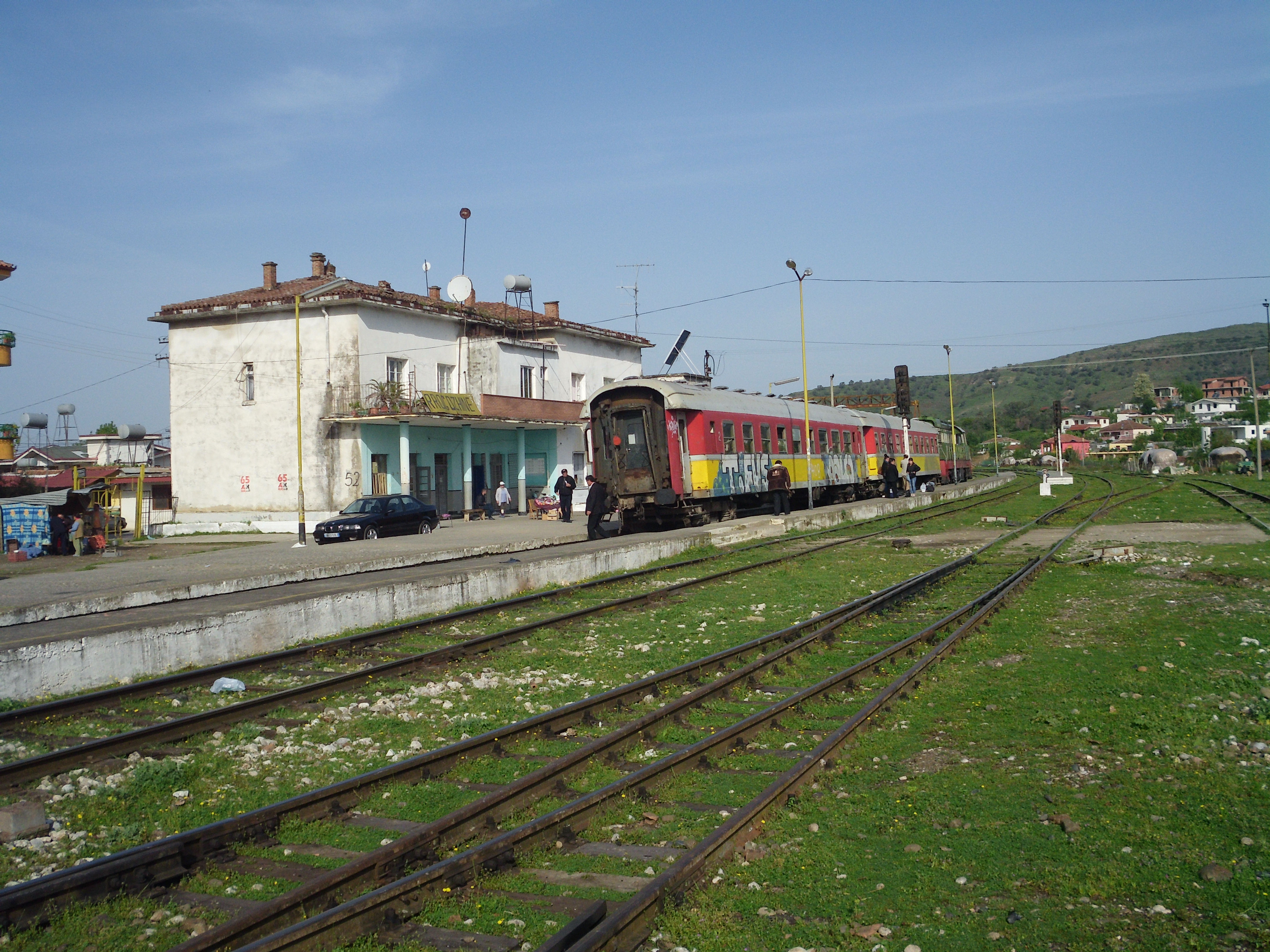 Passenger train from Vlorë to Durrës at a station in Rrogozhinë, Albania